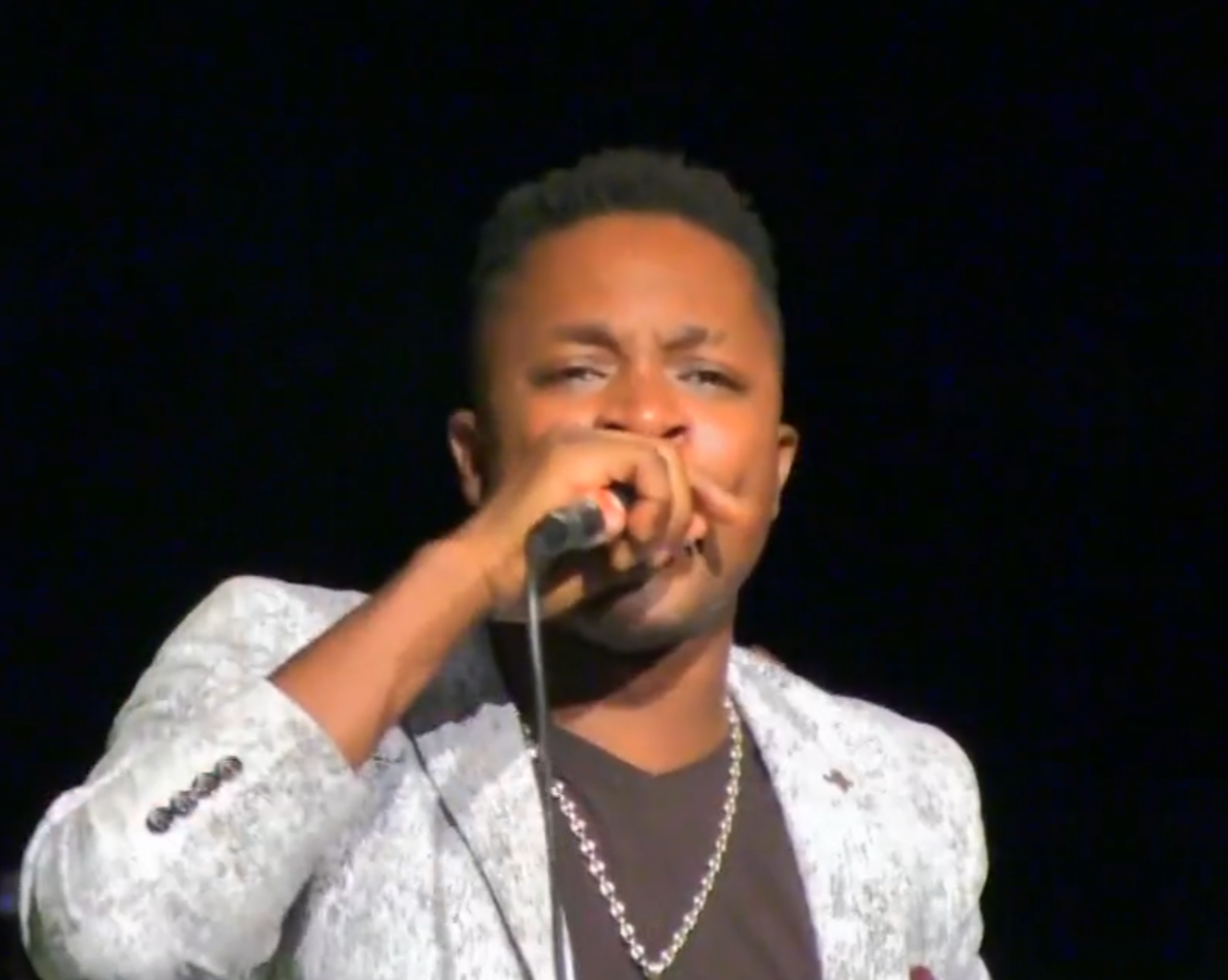 Screenshot of Ivorian-Burkinabé singer Imilo Lechanceux, from a performance at the first Festival Voix du Faso ("Voice of Faso Festival") in Montréal, Canada in 2017